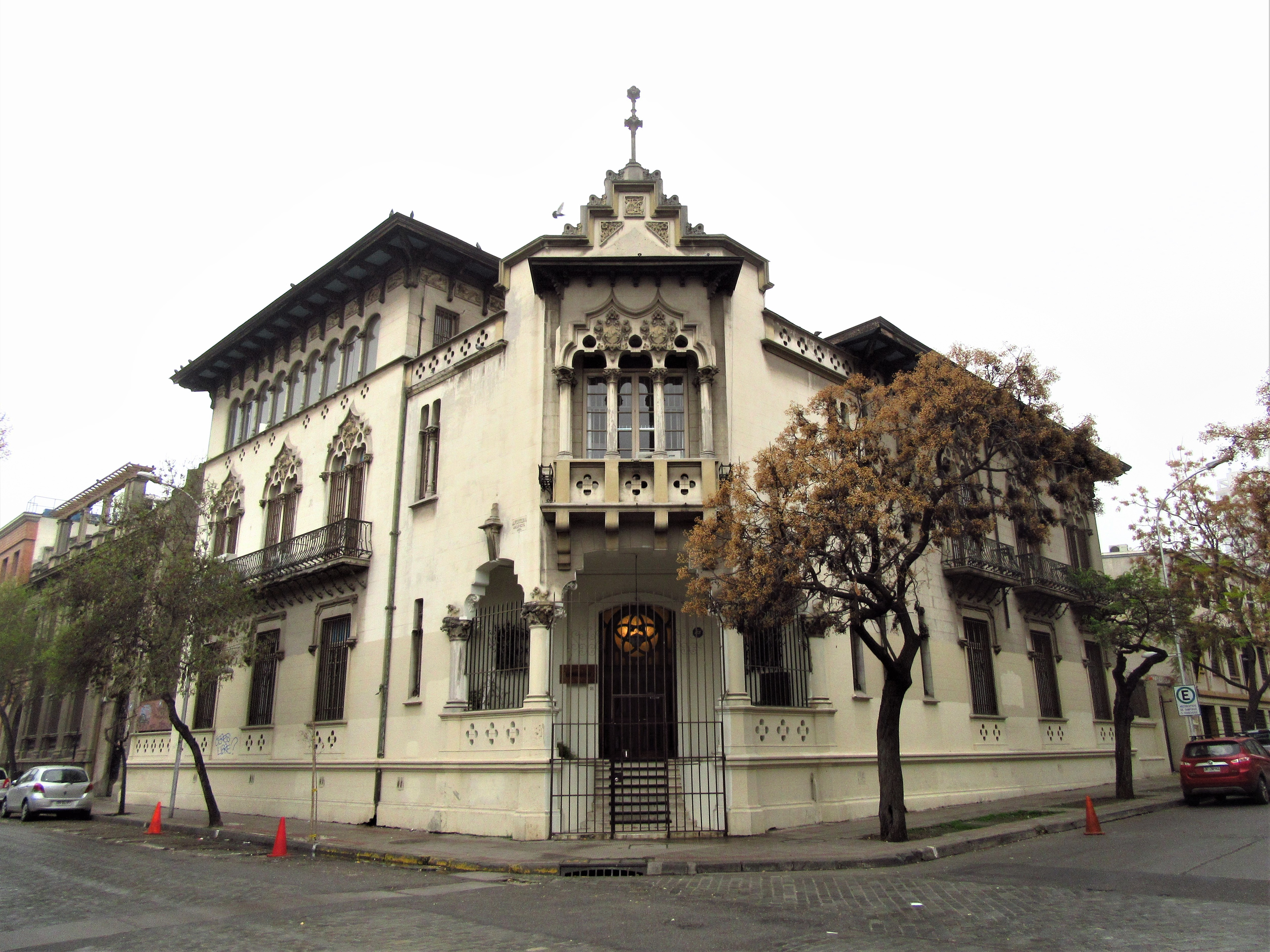 2017 in Santiago de Chile